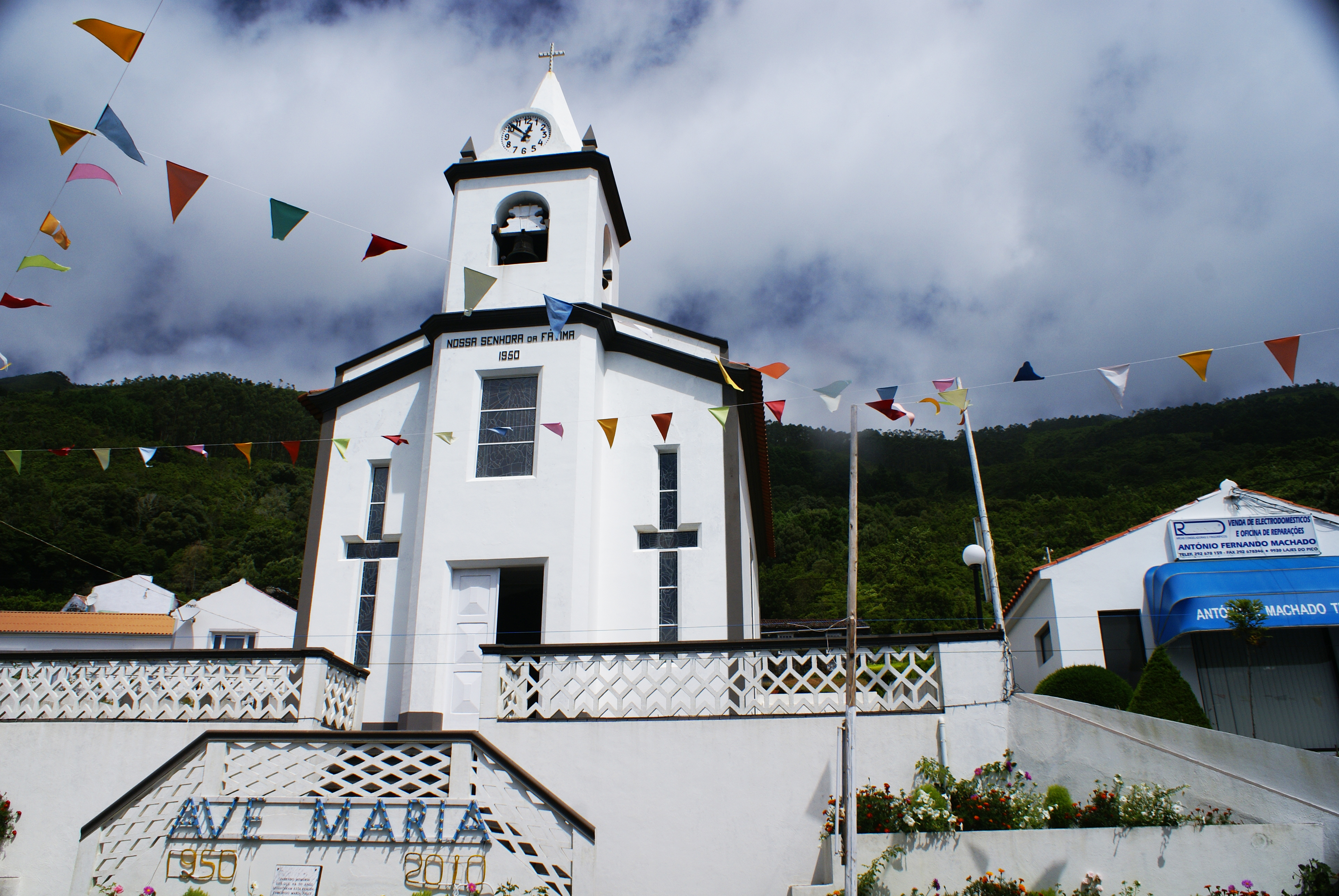 Ermida de Nossa de Fátima, fachada, Ribeira Seca, ilha do Pico, Açores